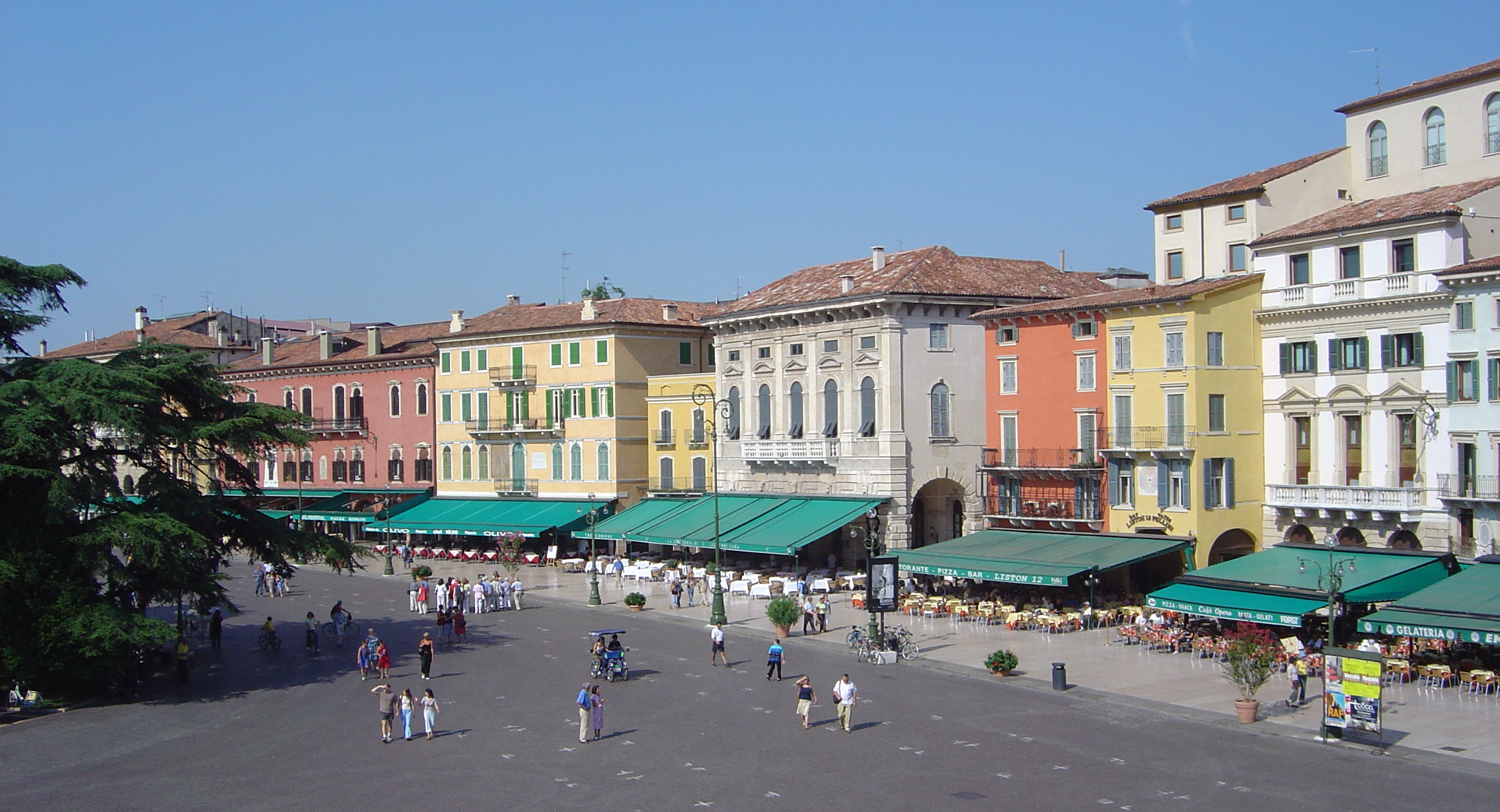 Piazza Bra from the arena, Verona, Italy